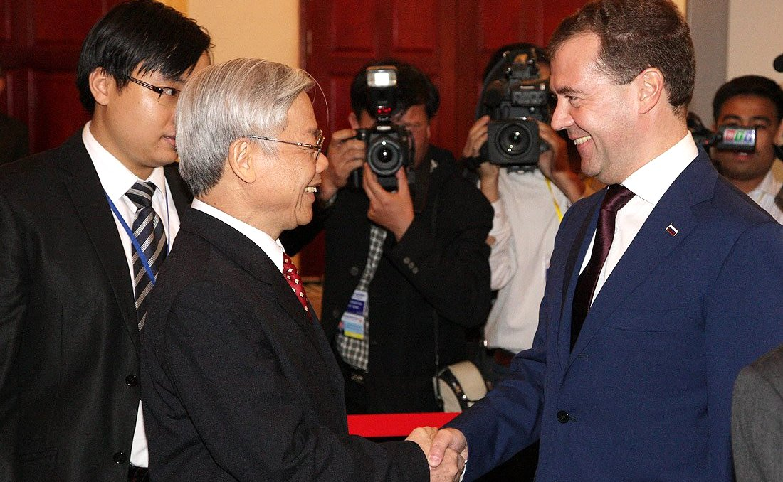 With Chairman of the Vietnamese National Assembly Nguyen Phu Trong.